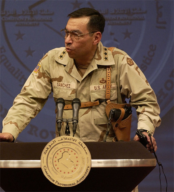 Ricardo Sanchez, Commander V. Corps, 7th Army, US Army Europe, cropped from U.S. Army Lt. Gen. Sanchez, left, talks while the Honorable Donald H. Rumsfeld, (left) U.S. Secretary of Defense, listens during a press conference in Baghdad, Iraq, on Sept. 6, 2003. (U.S. Air Force. photo by Tech. Sgt. Andy Dunaway) (Released)